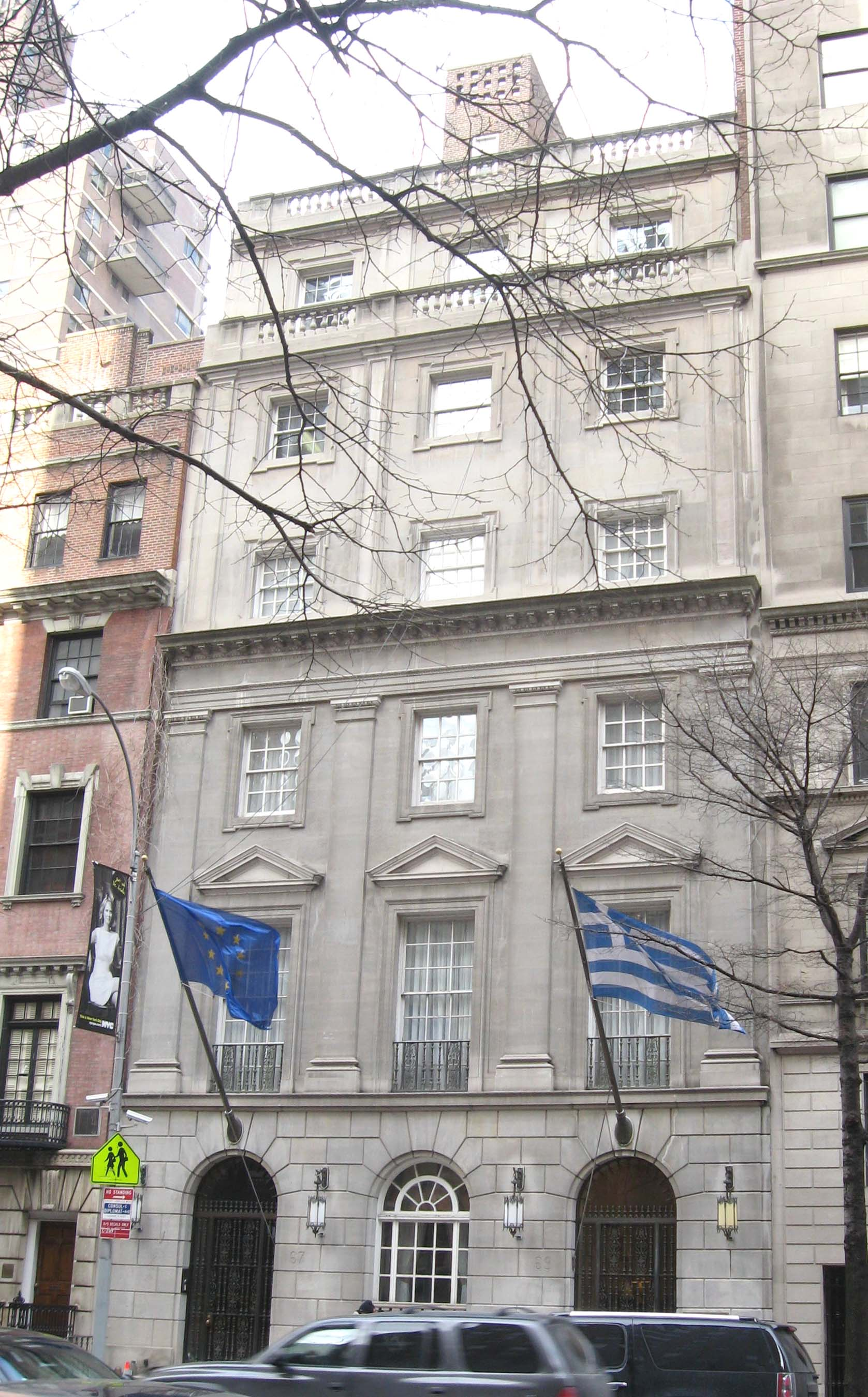 Looking north across en:79th Street at former home of George L. Rives, now Greek consulate, on a cloudy afternoon. On its left is File:Iselen house 59 E79 jeh.JPG. See also File:Greek Consulate E79 jeh.JPG